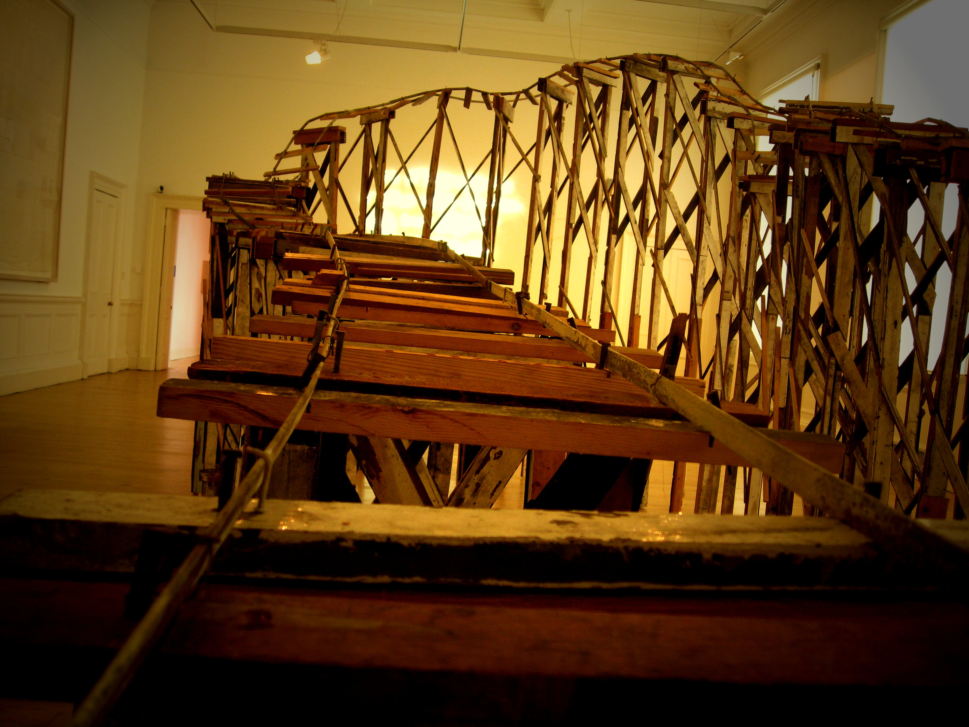 'It’s Not the Way I want to Die'. Tracey Emin. 2005